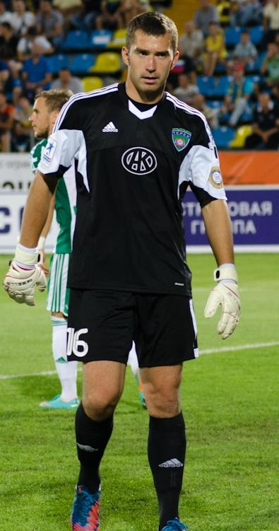 Yevgeni Gorodov with FC Terek Grozny.